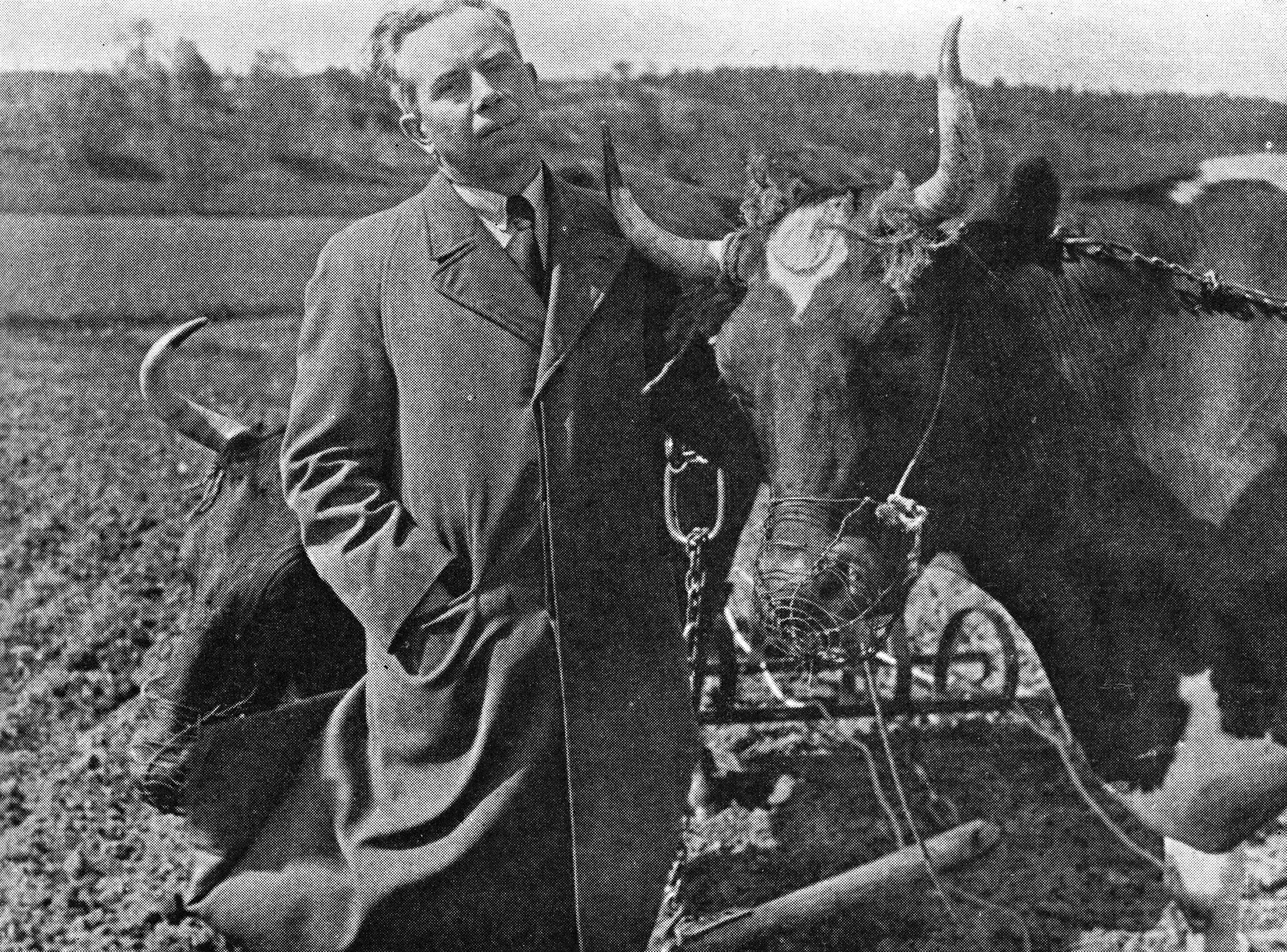 Swedish author Ivar Lo-Johansson.